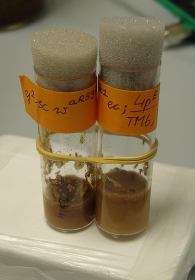 Laboratory cultures of Drosophila melanogaster